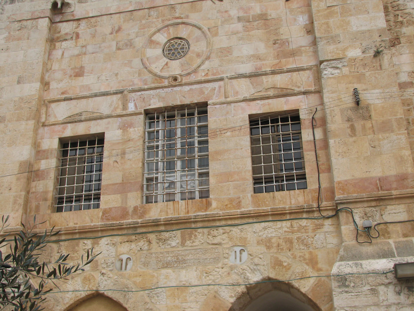 Al-Aqsa Mosque